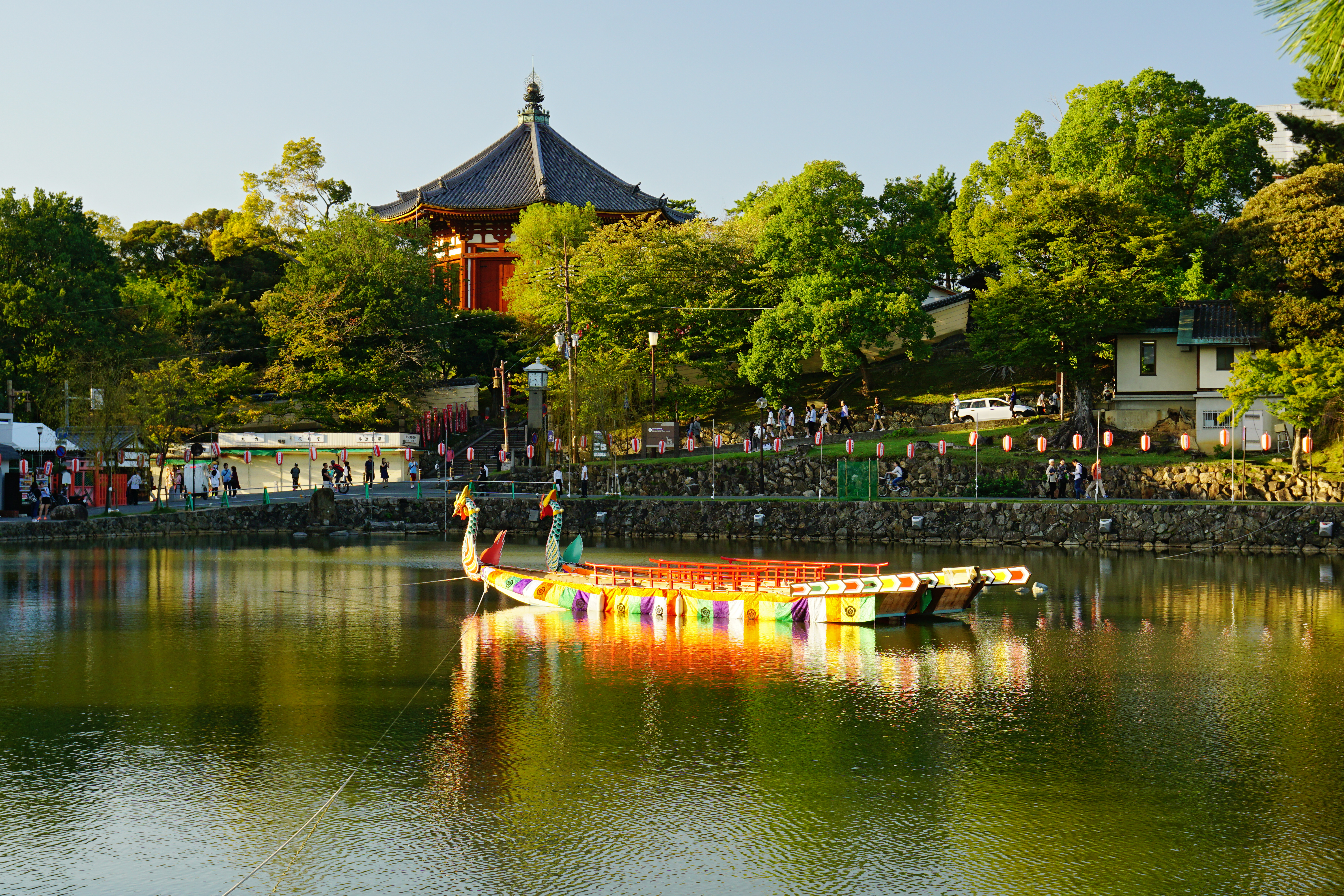 Sarusawaike in Nara, Nara prefecture, Japan